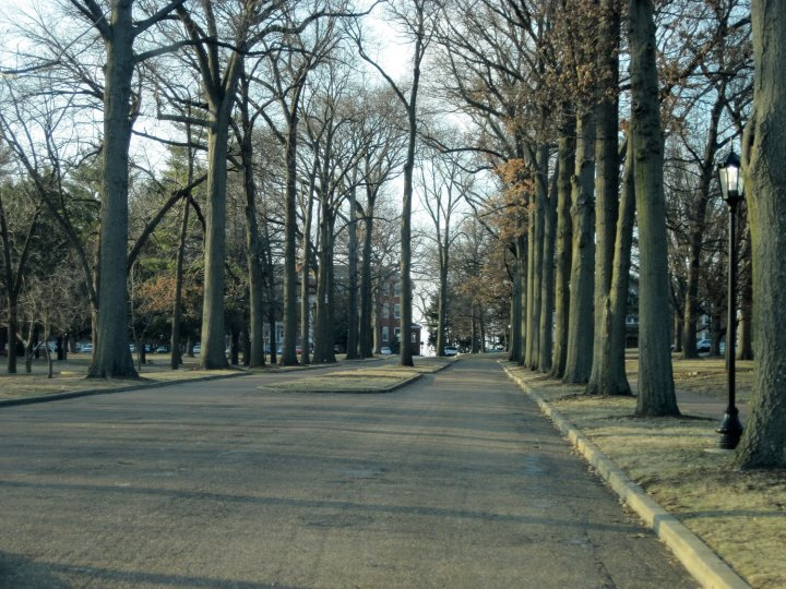 Older wooded part of campus. Lindenwood University